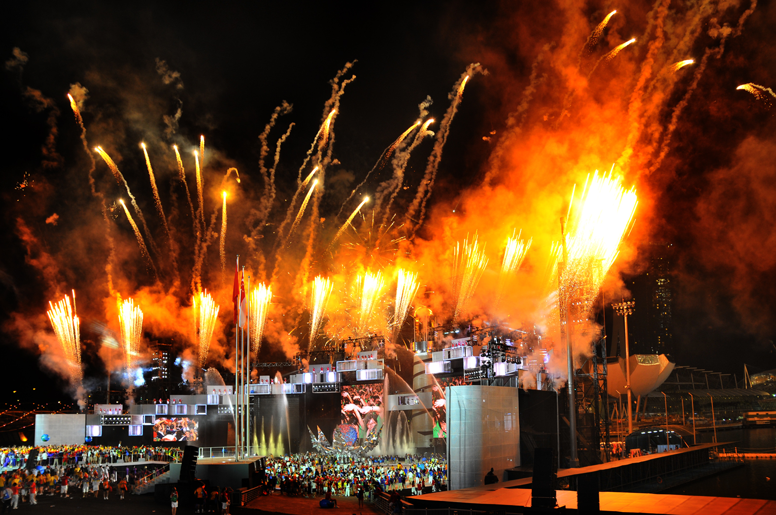 Closing ceremonies at the Youth Olympic Games in Singapore, 2010